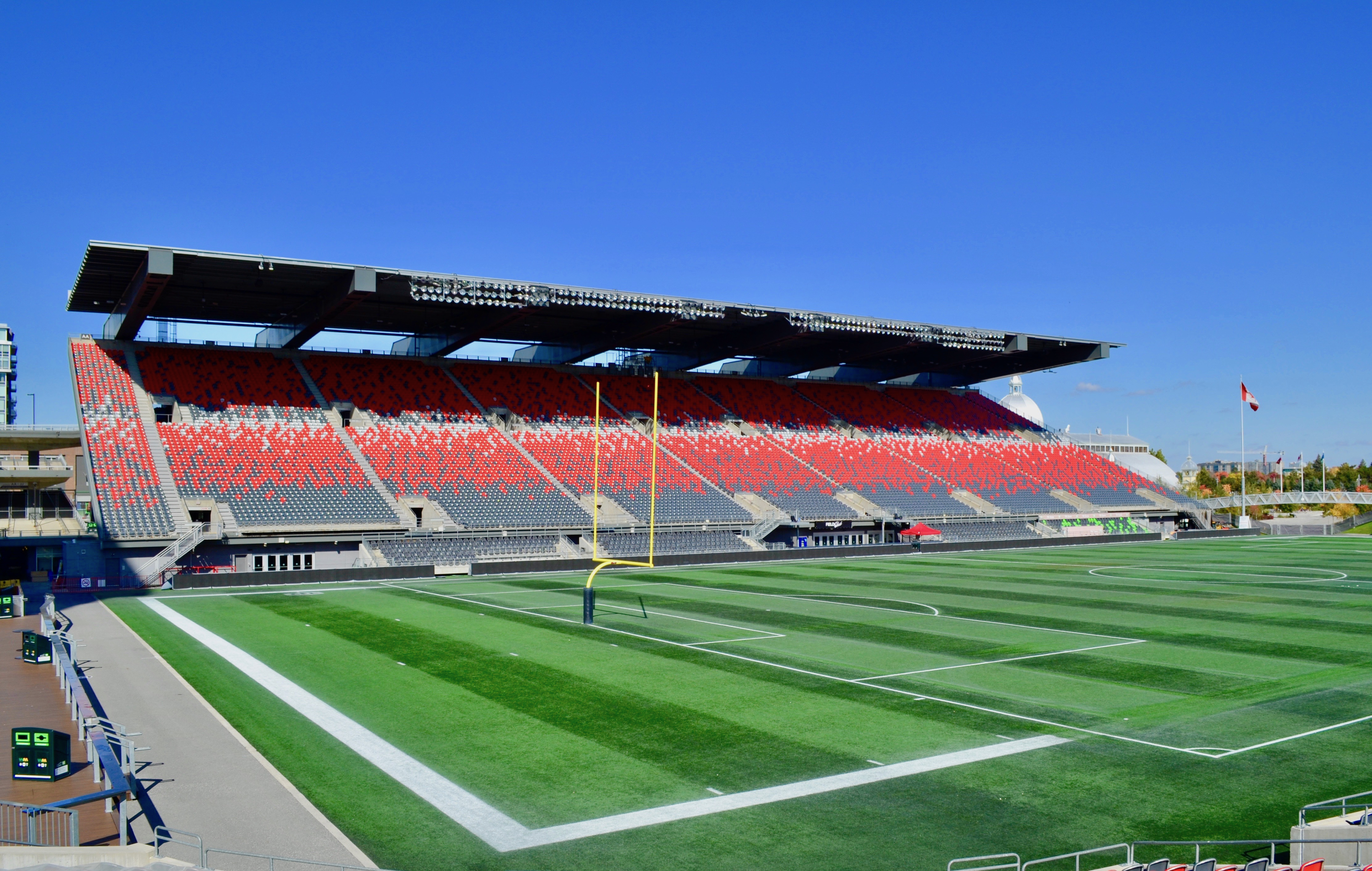 North stands (Northside) @ TD Place, mid-October 2019